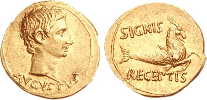 Augustus. 27 BC-AD 14. AV Aureus (7.74 g, 6h). Pergamum mint. Struck 19 BC. AVGVSTVS, bare head right SIGNIS above, RECEPTIS below, capricorn right.